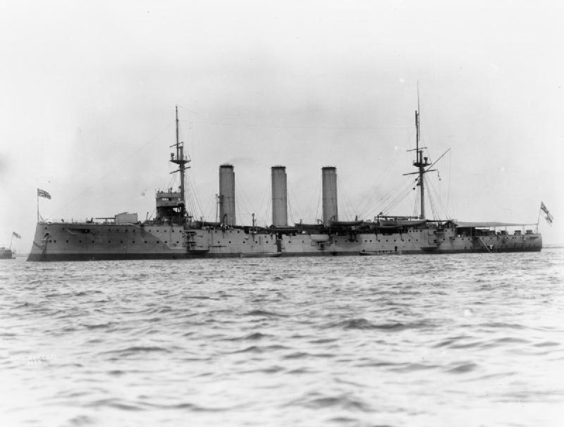 British Monmouth class armoured cruiser HMS DONEGAL